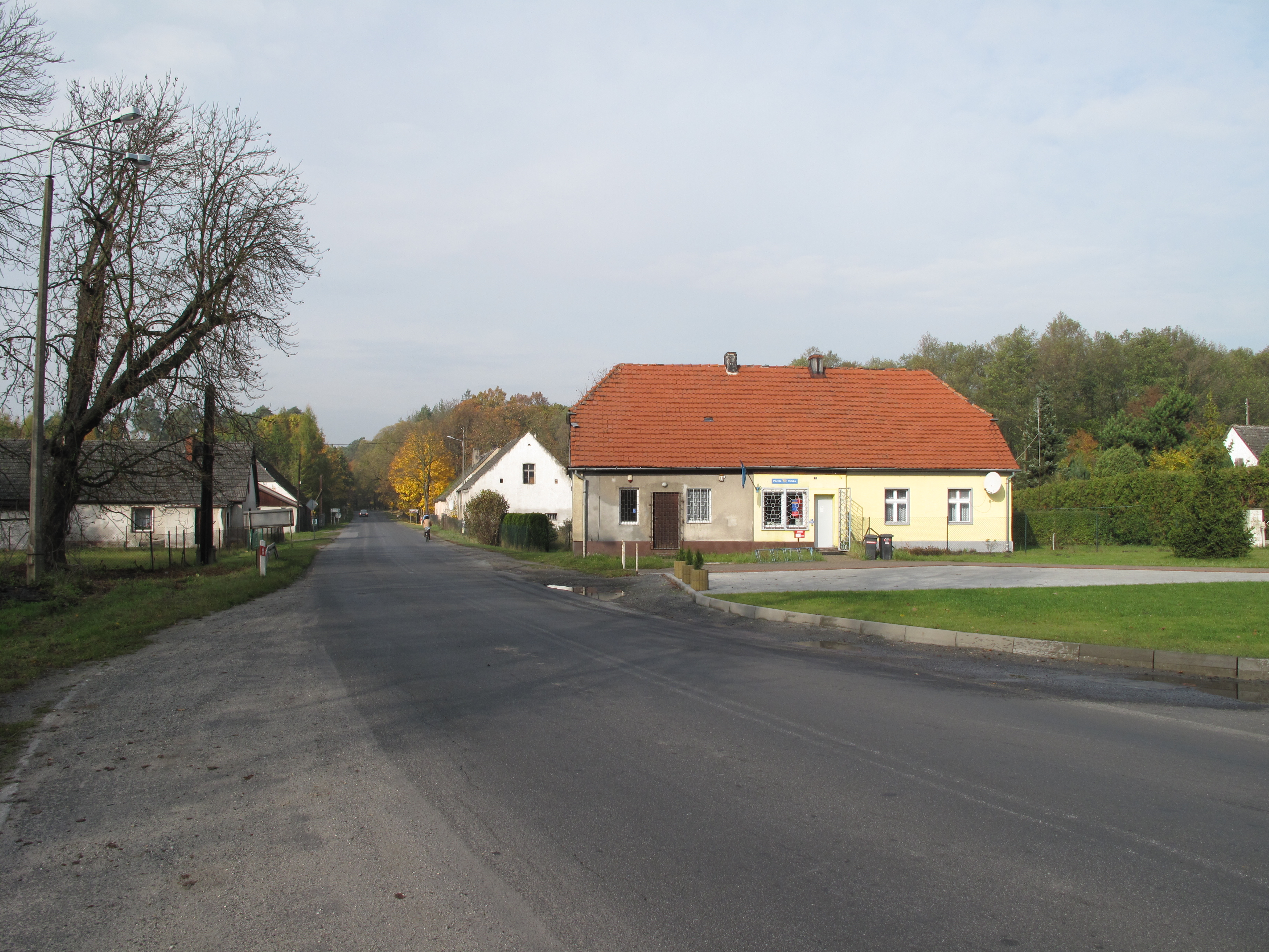 Kotlarnia, Kędzierzyn-Koźle County, Poland.